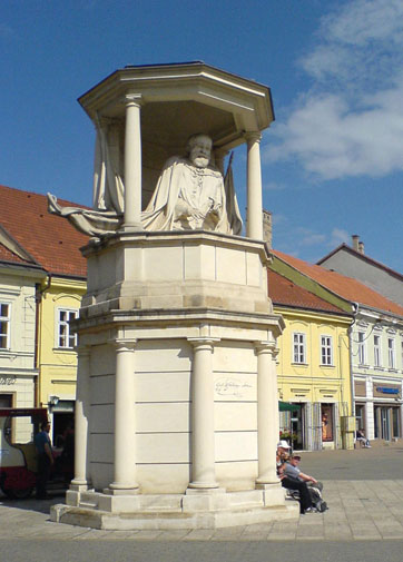 Statue of Istvan Szechenyi (1791–1860) hungarian politician. Sculptor: Miklos Melocco. Miskolc, Hungary